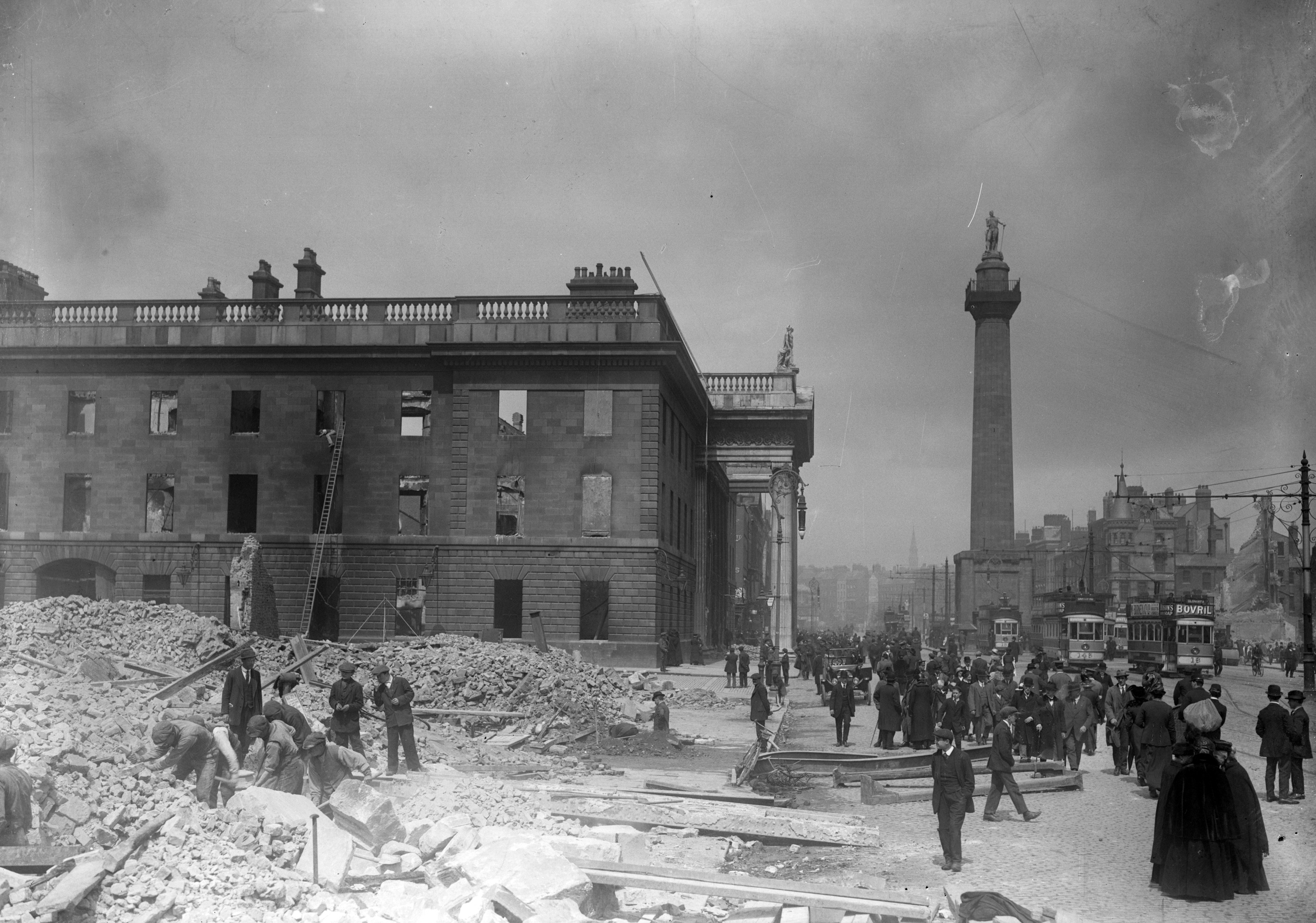 The shell of the G.P.O. on Sackville Street (later O'Connell Street), Dublin in the aftermath of the 1916 Rising. Date: May? 1916 NLI Ref.: Ke 121